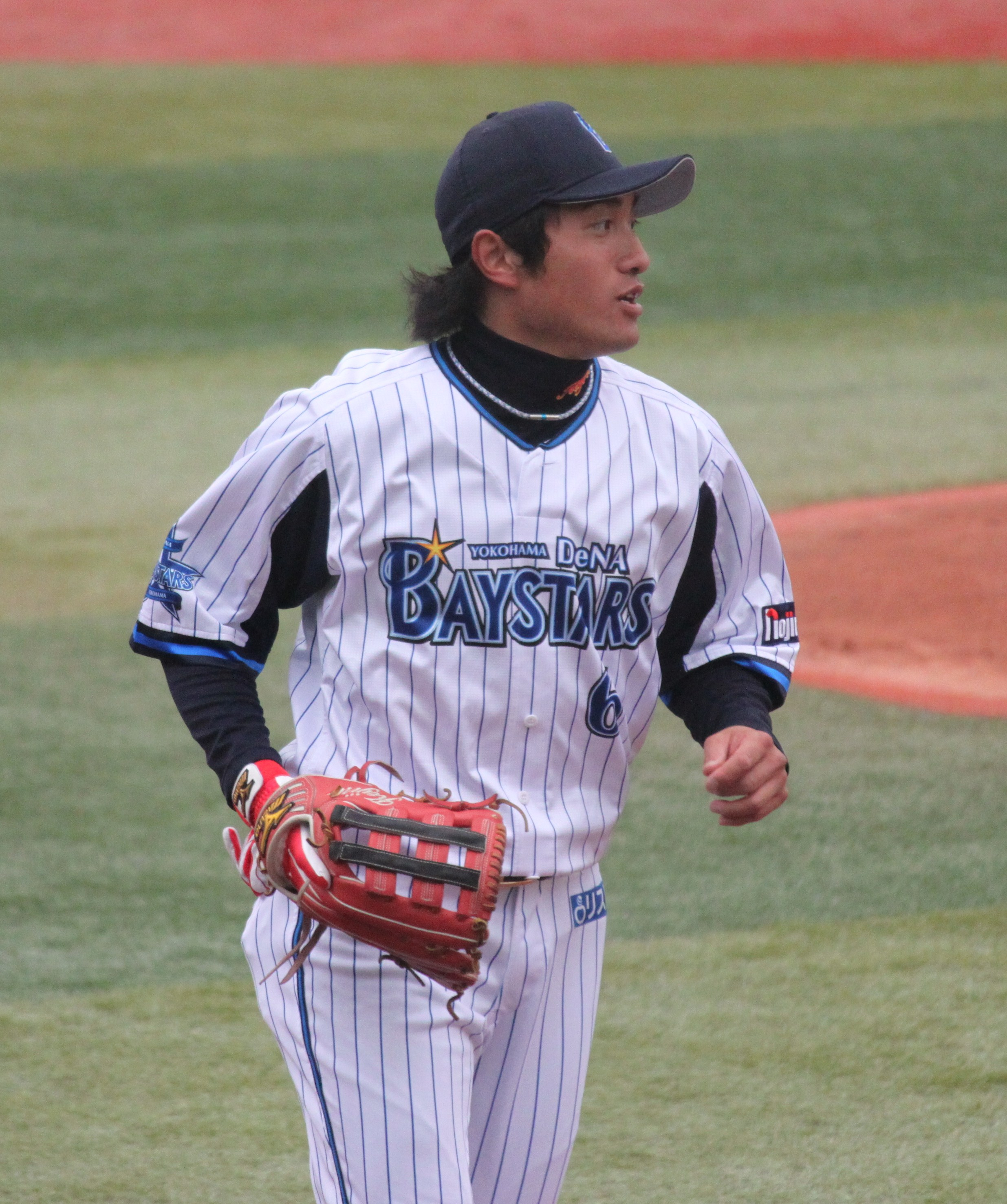 Keijiro Matsumoto, outfielder of the Yokohama DeNA BayStars, at Yokohama Stadium.